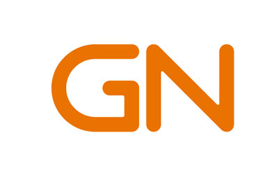 Logo - GN Group